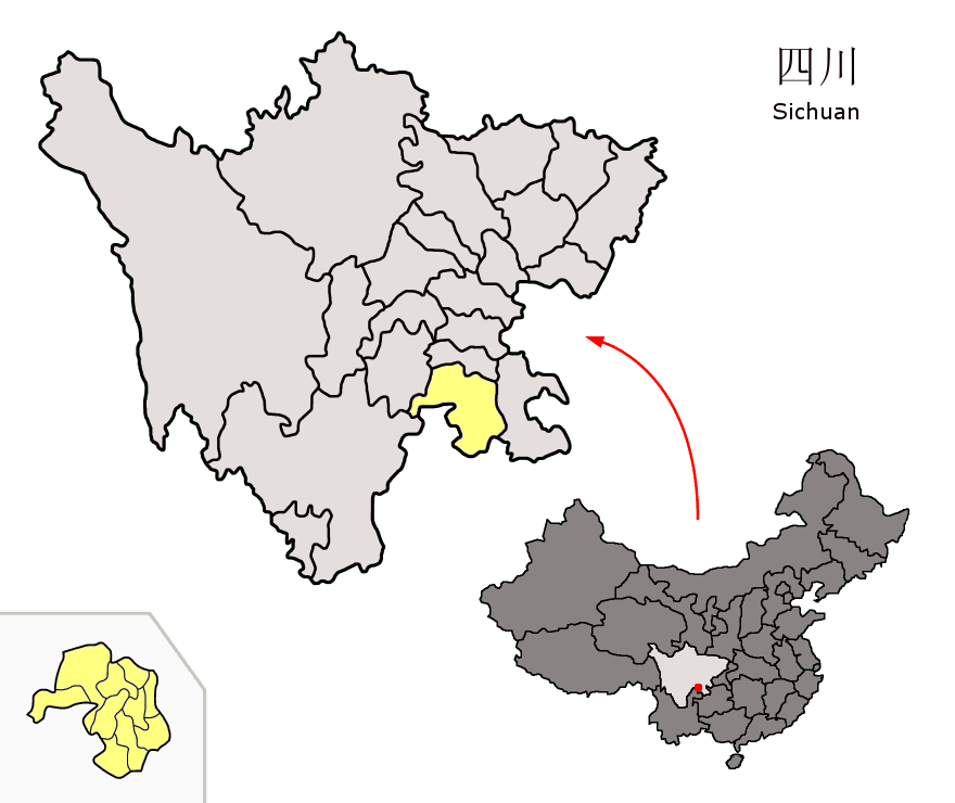 Location of Guang'an Prefecture (yellow) within Sichuan province of China Map drawn in october 2007 using various sources, mainly : Sichuan province administrative regions GIS data: 1:1M, County level, 1990 Sichuan Counties map from